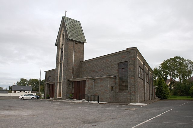 Drommahane Church RC Church in Drommahane, Co Cork.